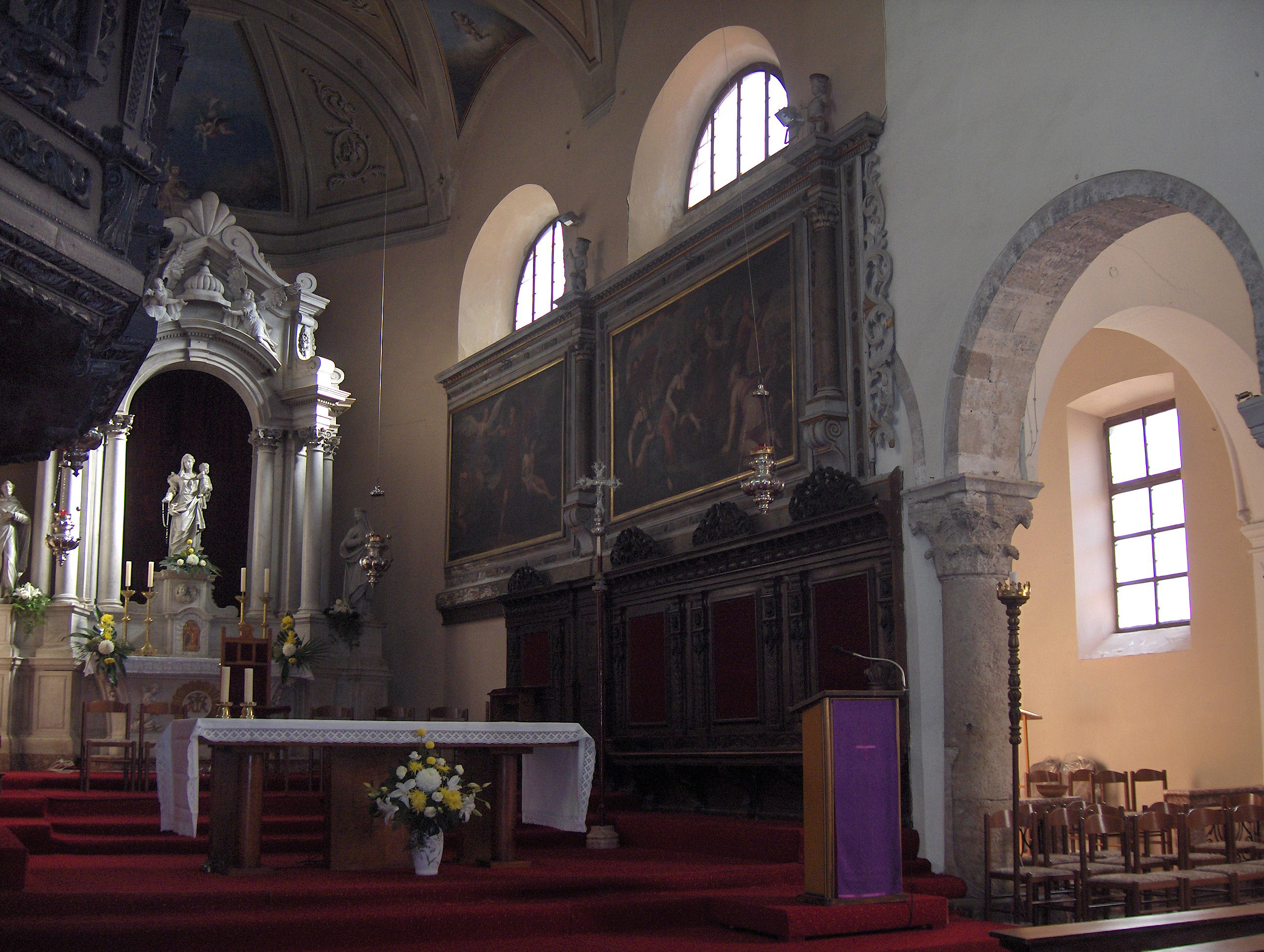 Choir of the Church of the Assumption; Krk, on the island of Krk, Croatia